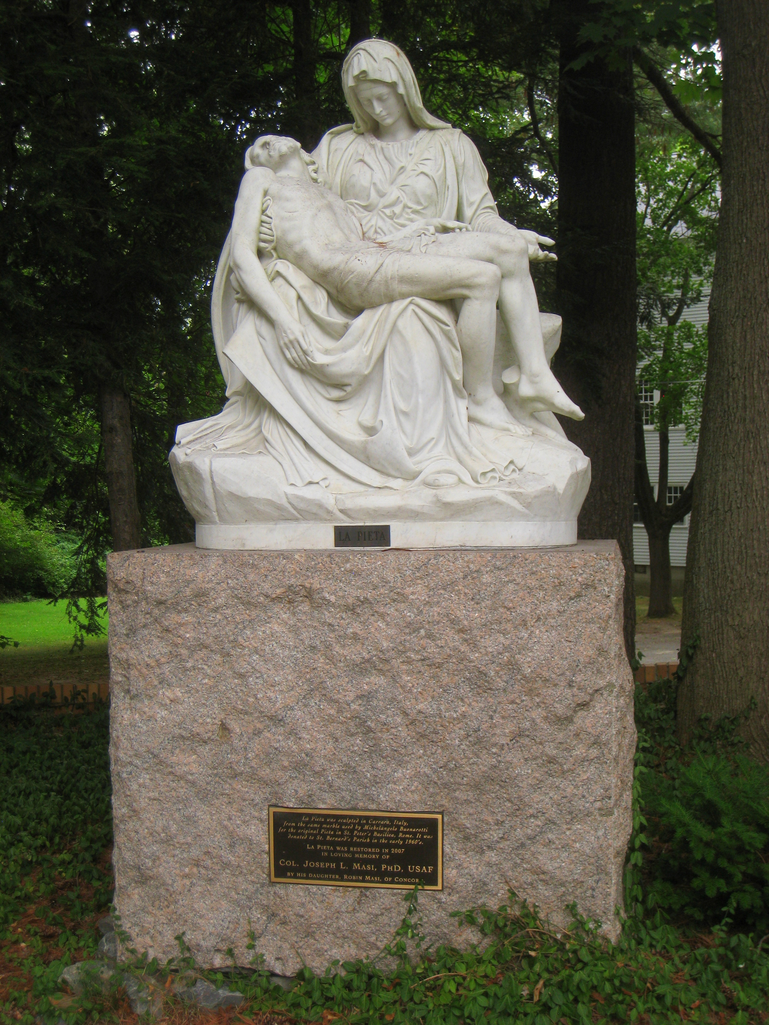 The Pieta, in Concord, Massachusetts, USA.